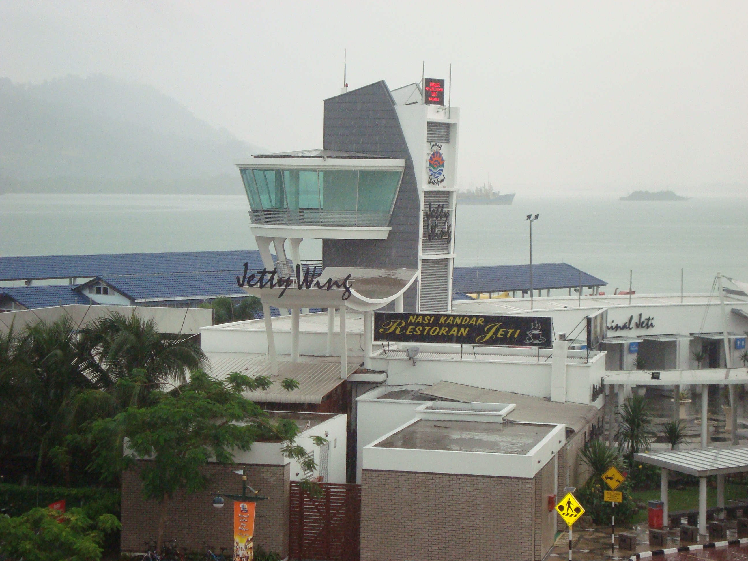 Teluk Intan jetty, Teluk Intan, Perak.